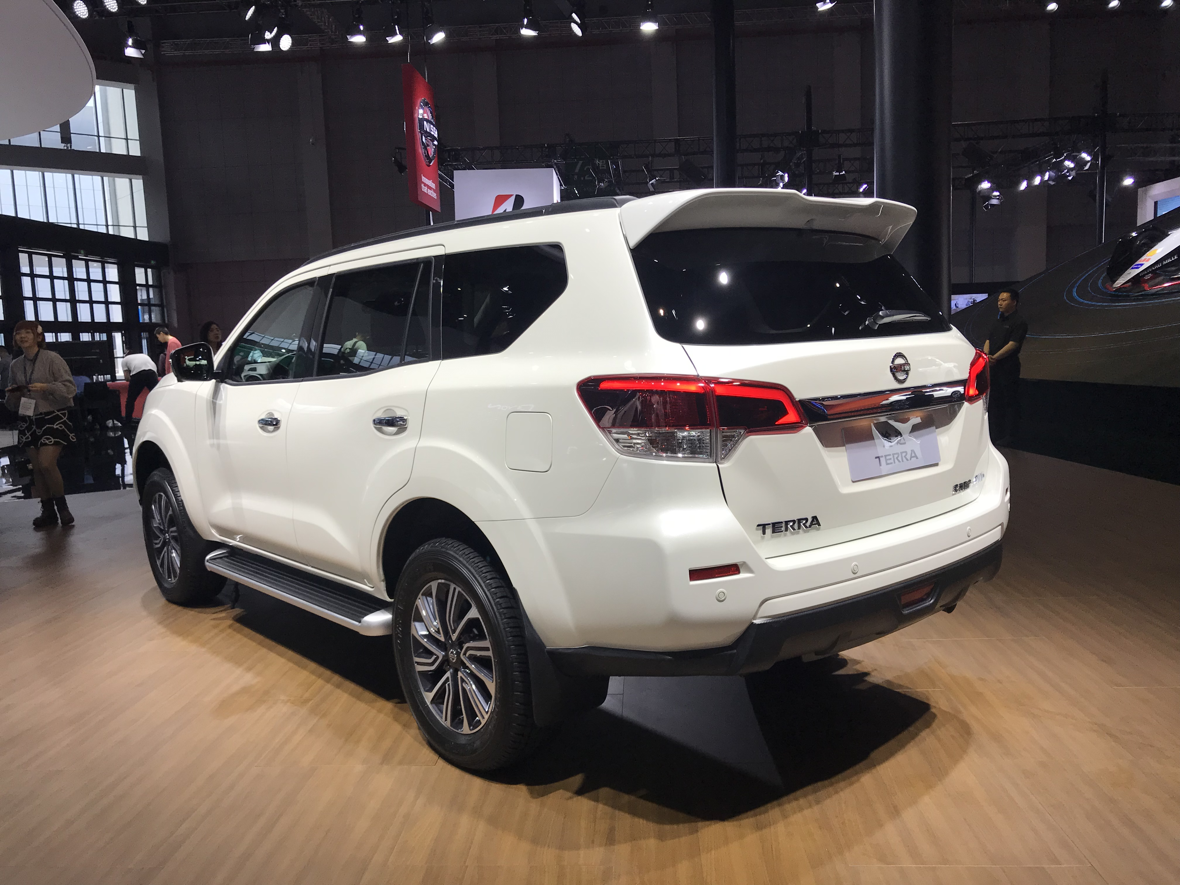 Nissan Terra rear